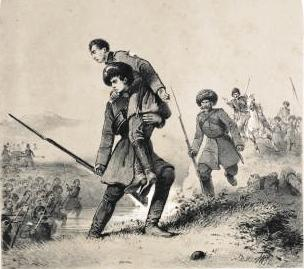 Heroism of the podpraporshchik Prince Archil Ivanovich Andronnikov (Andronikashvili) at the battle of Kadyklar on 19 November 1853